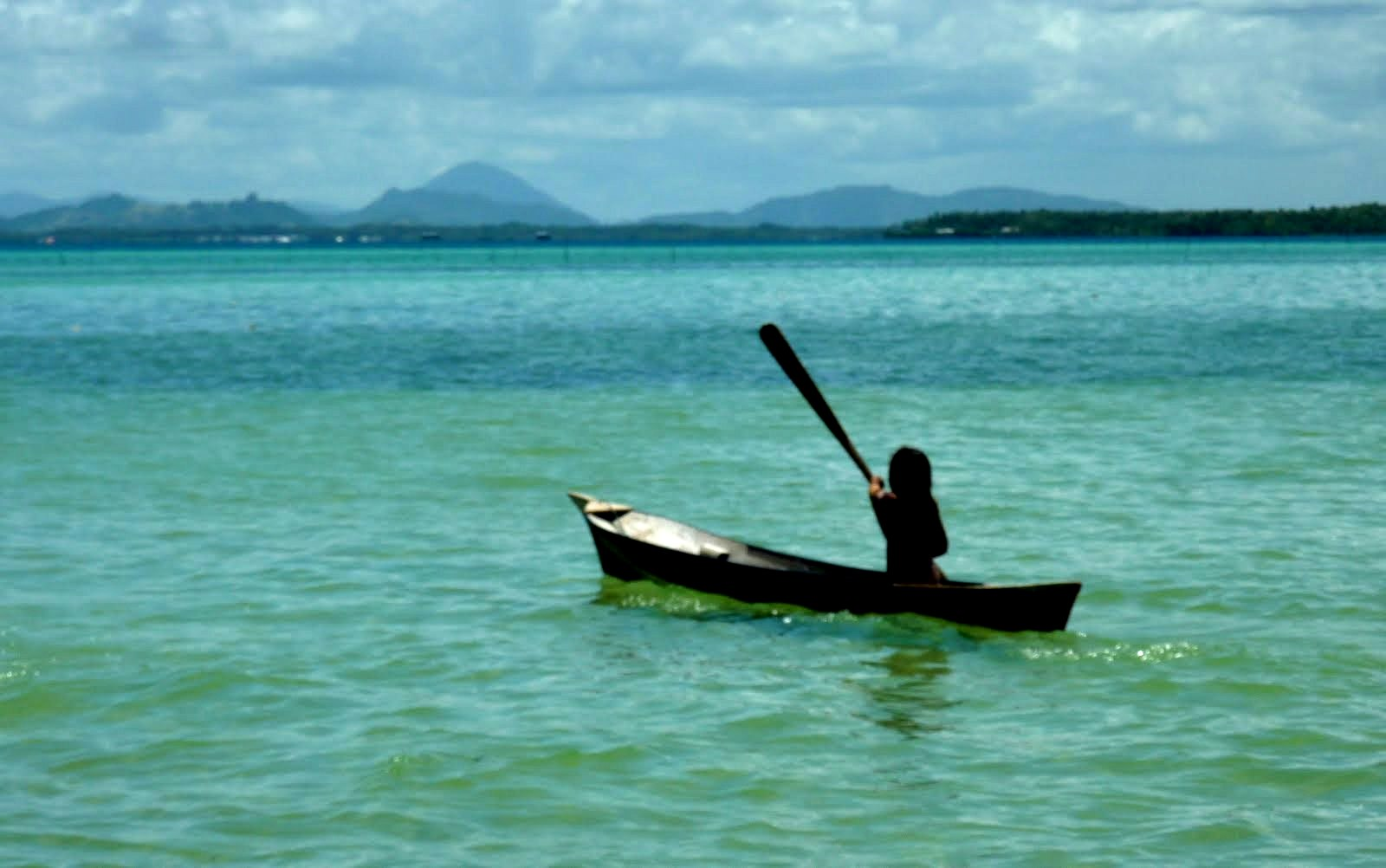 Braving it at Sea